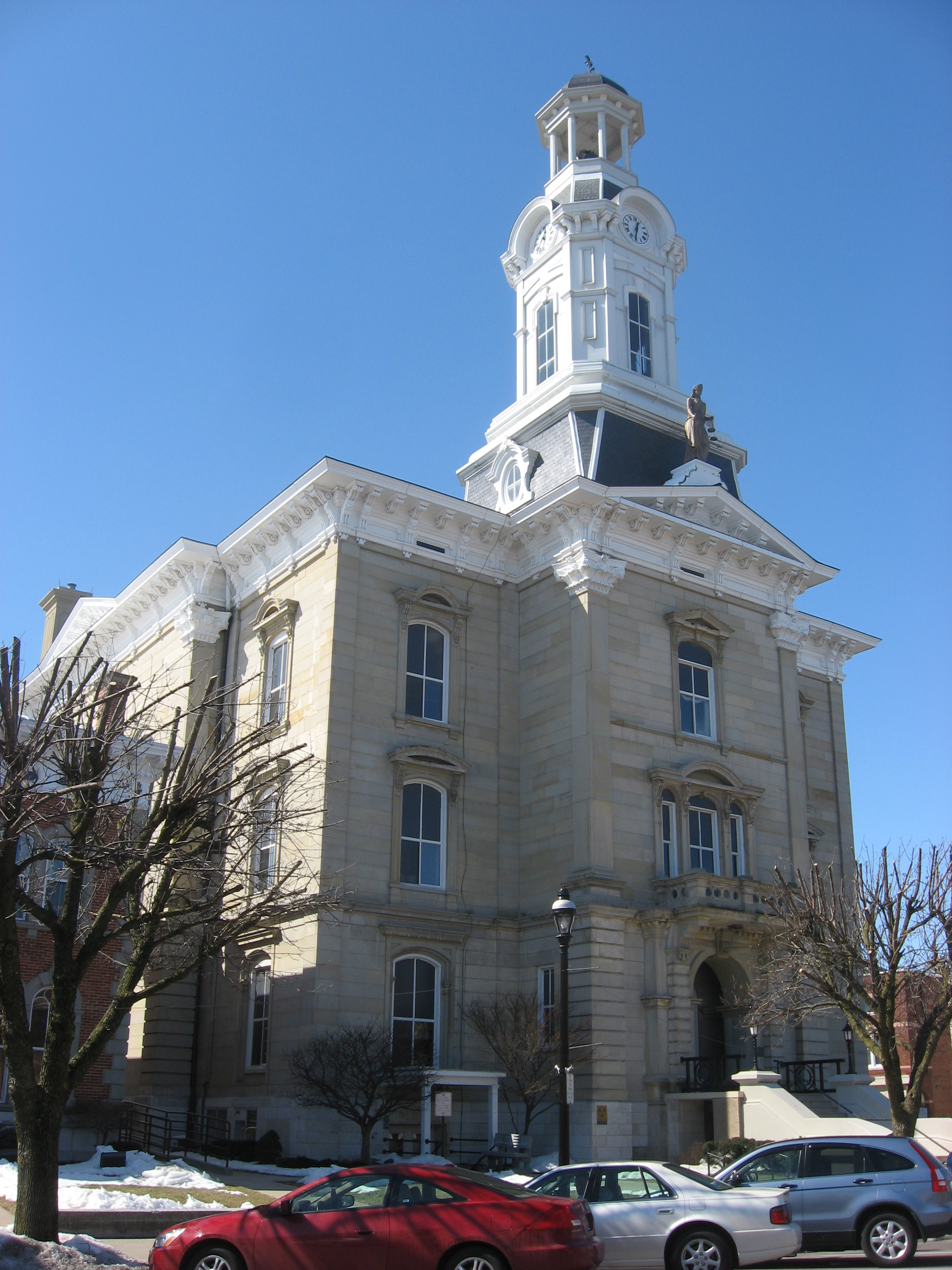 Front and side of the Darke County Courthouse, located at the intersection of Fourth Street and Broadway in downtown Greenville, Ohio, United States. Built in 1874, it is listed on the National Register of Historic Places, and it is a contributing property to a Register-listed historic district, the Greenville South Broadway Commercial District.